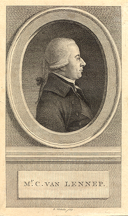 Portrait of Cornelis van Lennep (1751-1813)